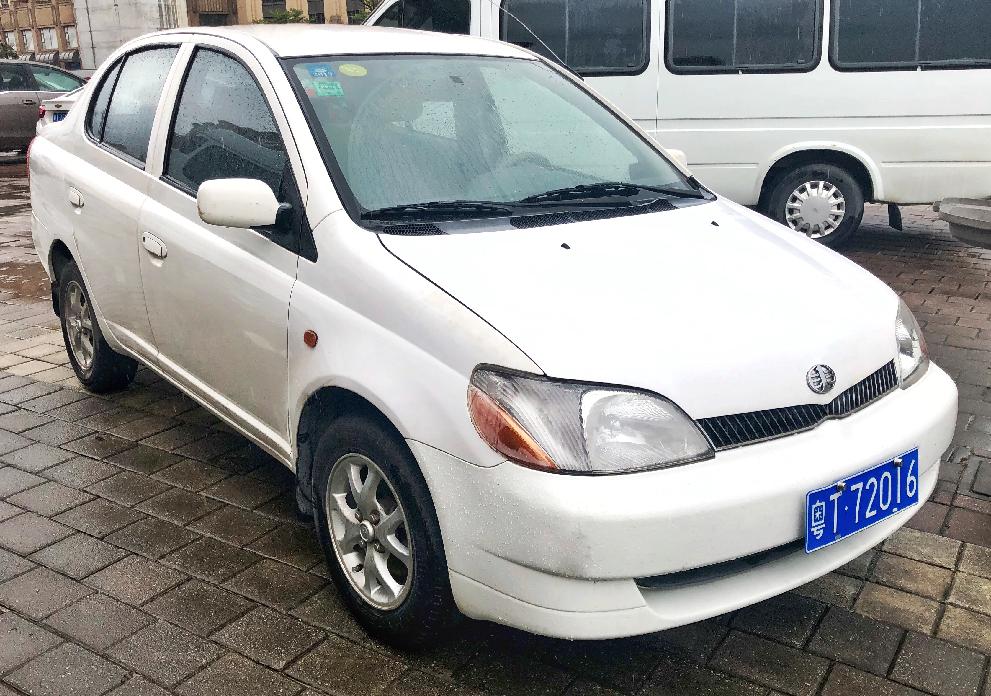 A 2002 FAW Tianjin Yaku taken in Zhongshan, Guangdong province, China. 中文（中国大陆）: 一辆2002年的天津一汽雅酷，摄于中国广东省中山市。